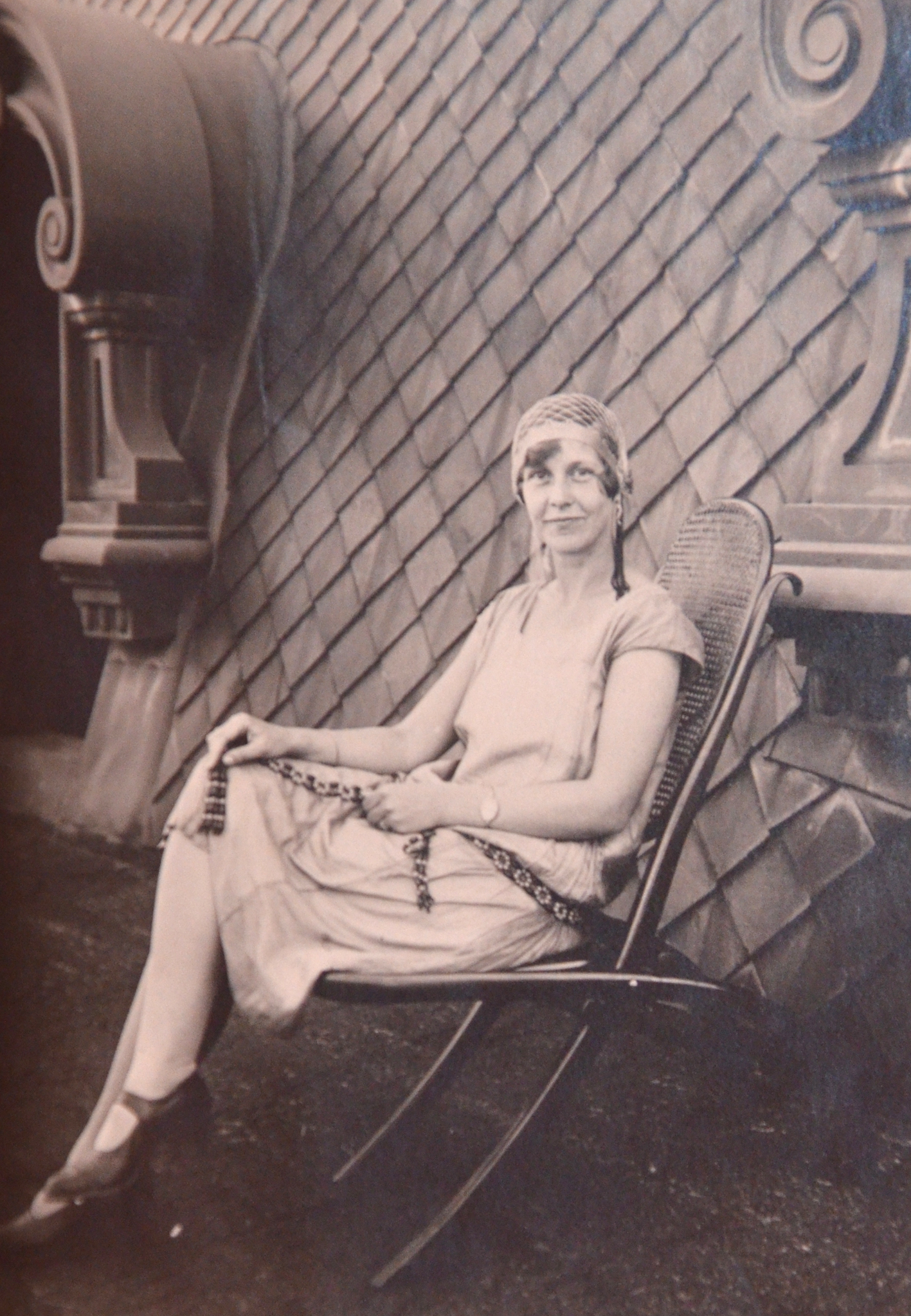 Ita Maximowna at a roof garden in Berlin, Lichterfelde Ost, Luisenstr., 1926, family photo of the collection Schnakenburg